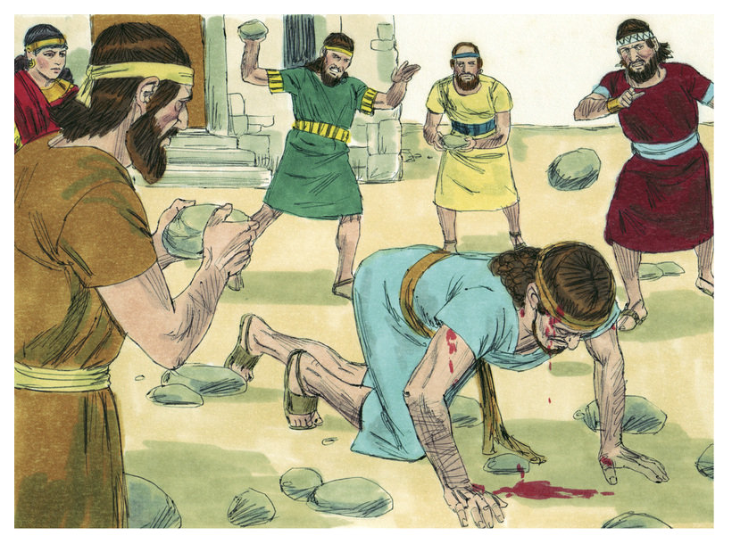 Biblical illustration of First Book of Kings Chapter 21